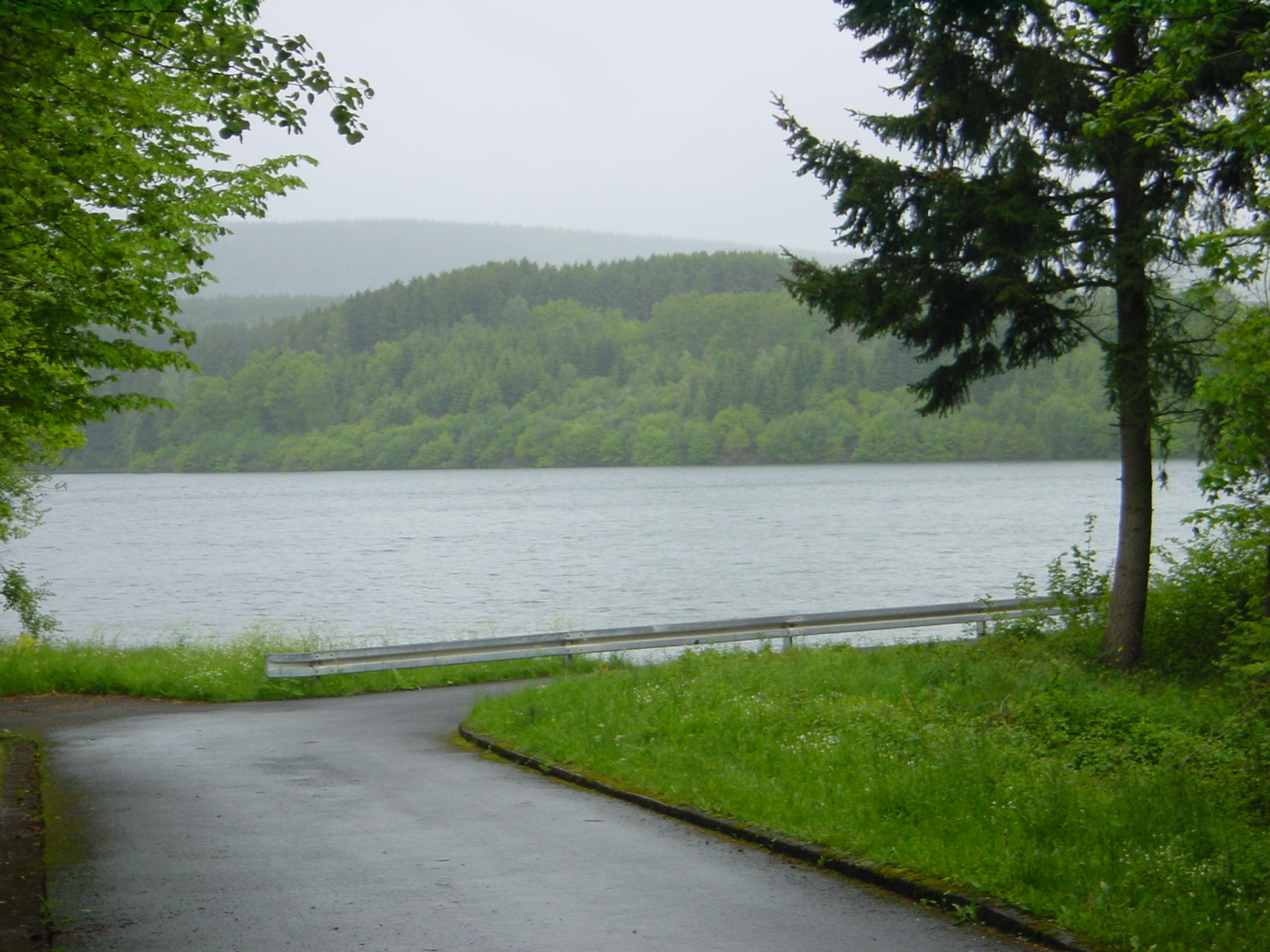 Steinbach dam reservoir near Idar-Oberstein, Germany